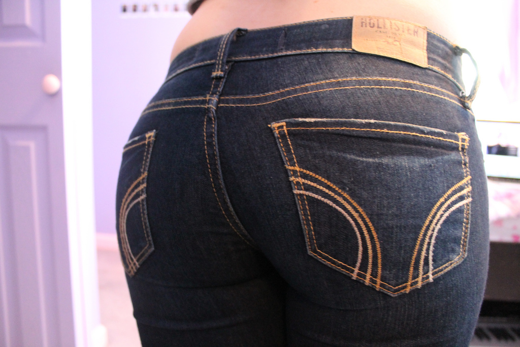 A pair of Hollister jeans worn by a young teenage girl.